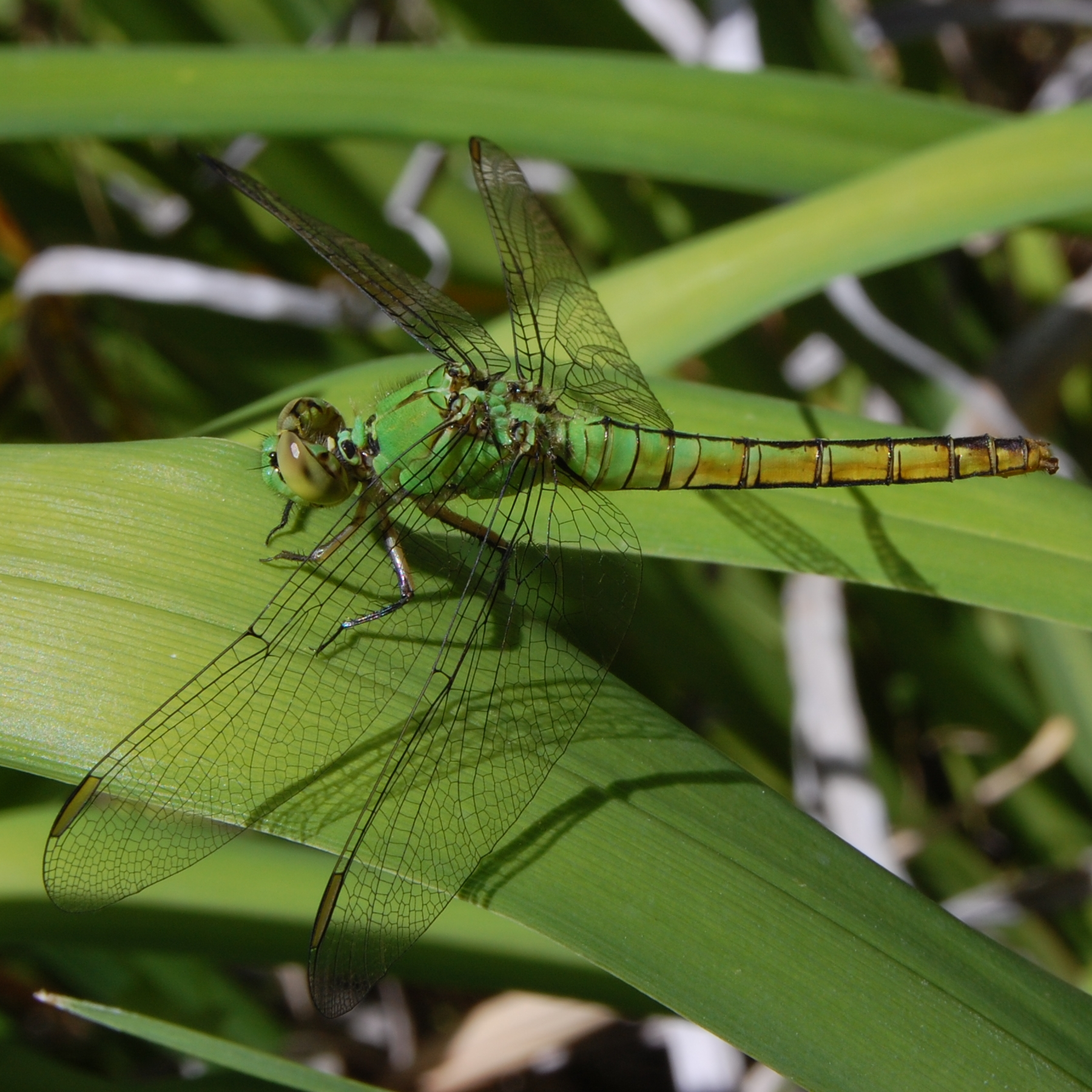 Western Pondhawk. Female